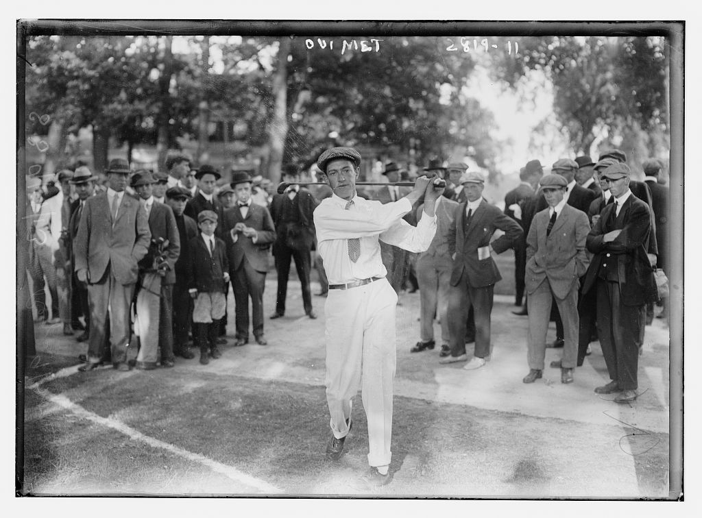 Bain News Service,, publisher. Francis Ouimet at the 1913 US Open 1913 September 17? (date created or published later by Bain) 1 negative : glass ; 5 x 7 in. or smaller. Notes: Title and date from data provided by the Bain News Service on the negative. Photo shows American golfer Francis DeSales Ouimet (1893-1967). (Source: Flickr Commons project, 2009) Forms part of: George Grantham Bain Collection (Library of Congress). Format: Glass negatives. Repository: Library of Congress, Prints and Photographs Division, Washington, D.C. 20540 USA, General information about the Bain Collection is available at Persistent URL: Call Number: LC-B2- 2819-11